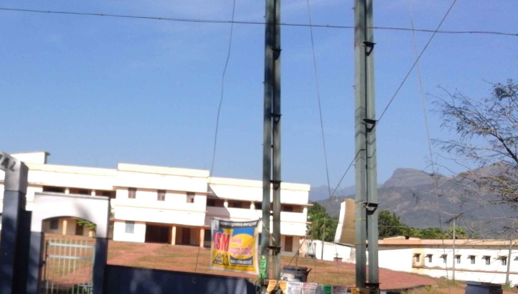 Kerala, India.